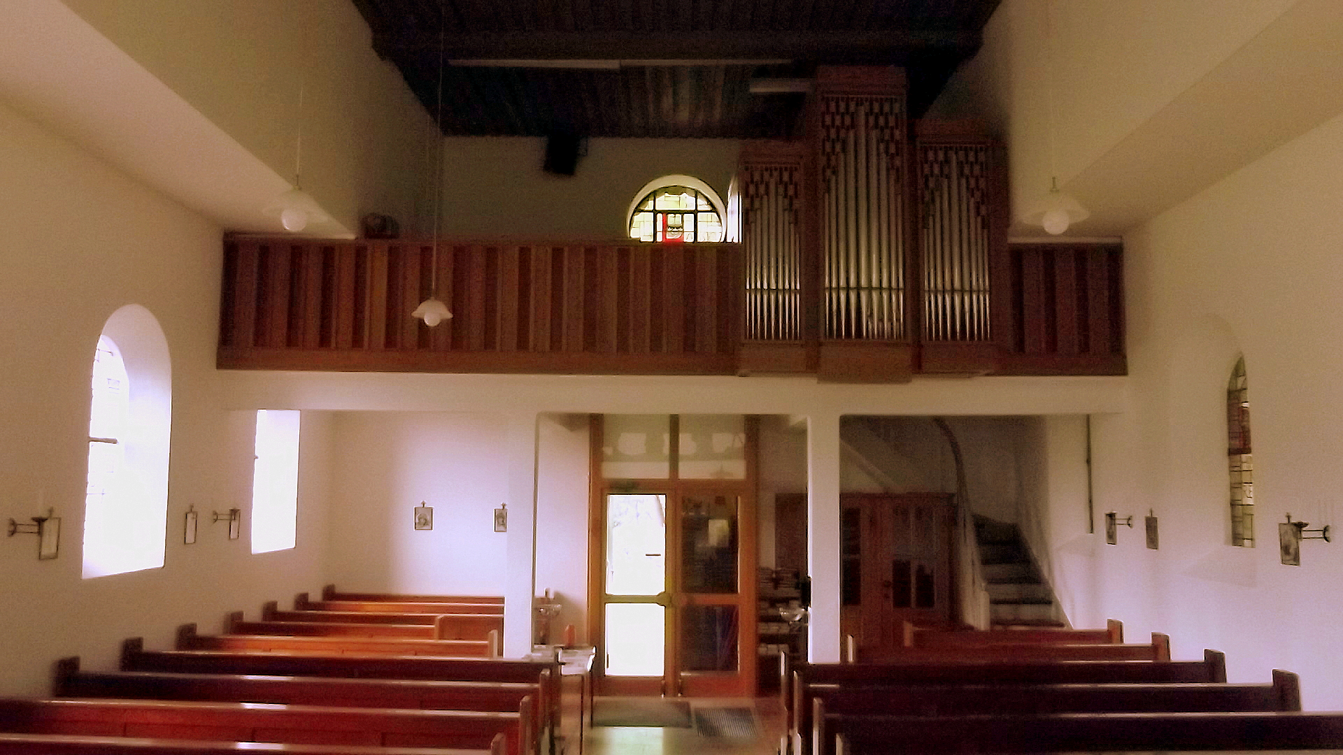 Interior of the roman catholic church in Hoof, Saarland, Germany